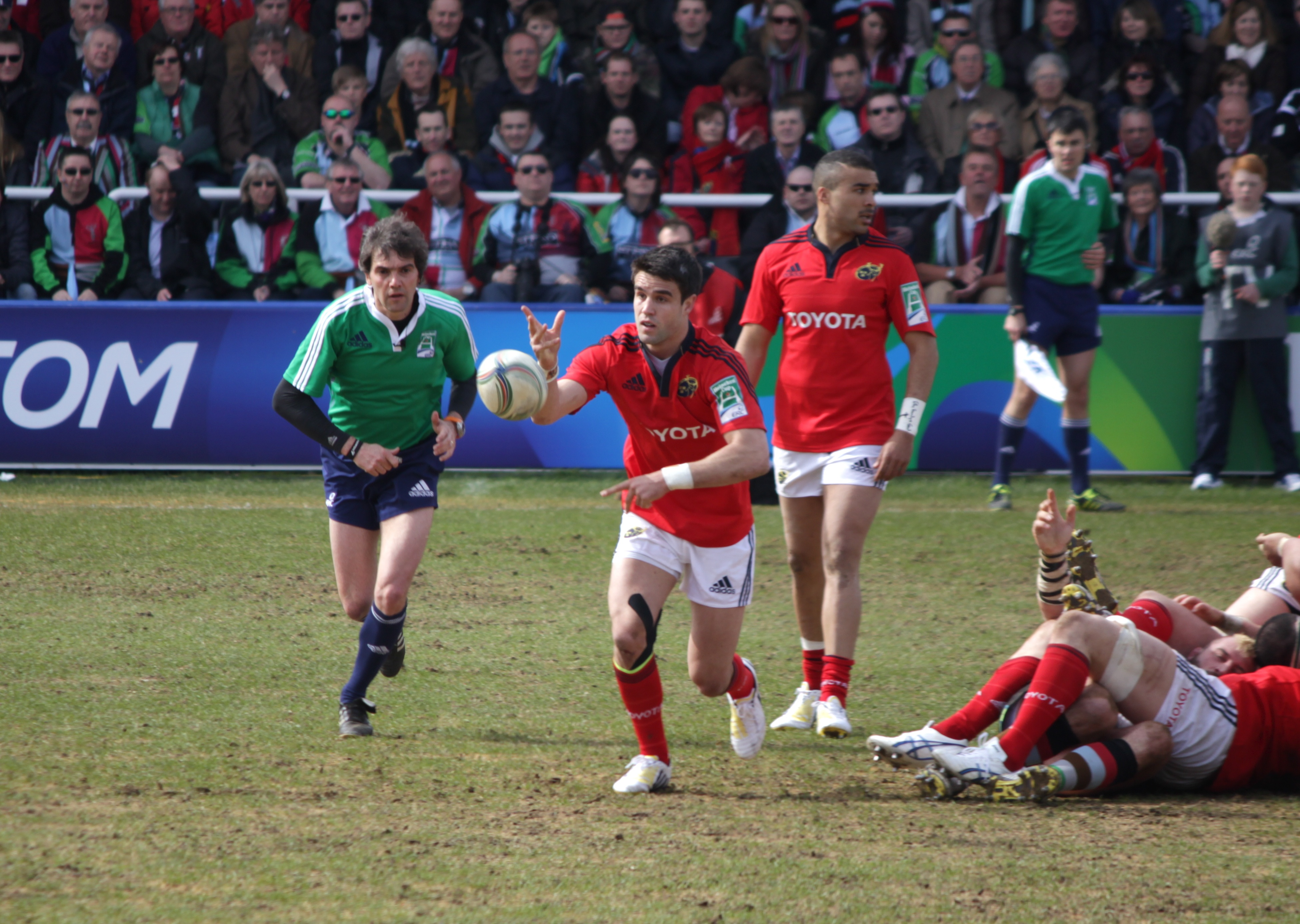 Connor Murray throws a pass, Zebo looks on.